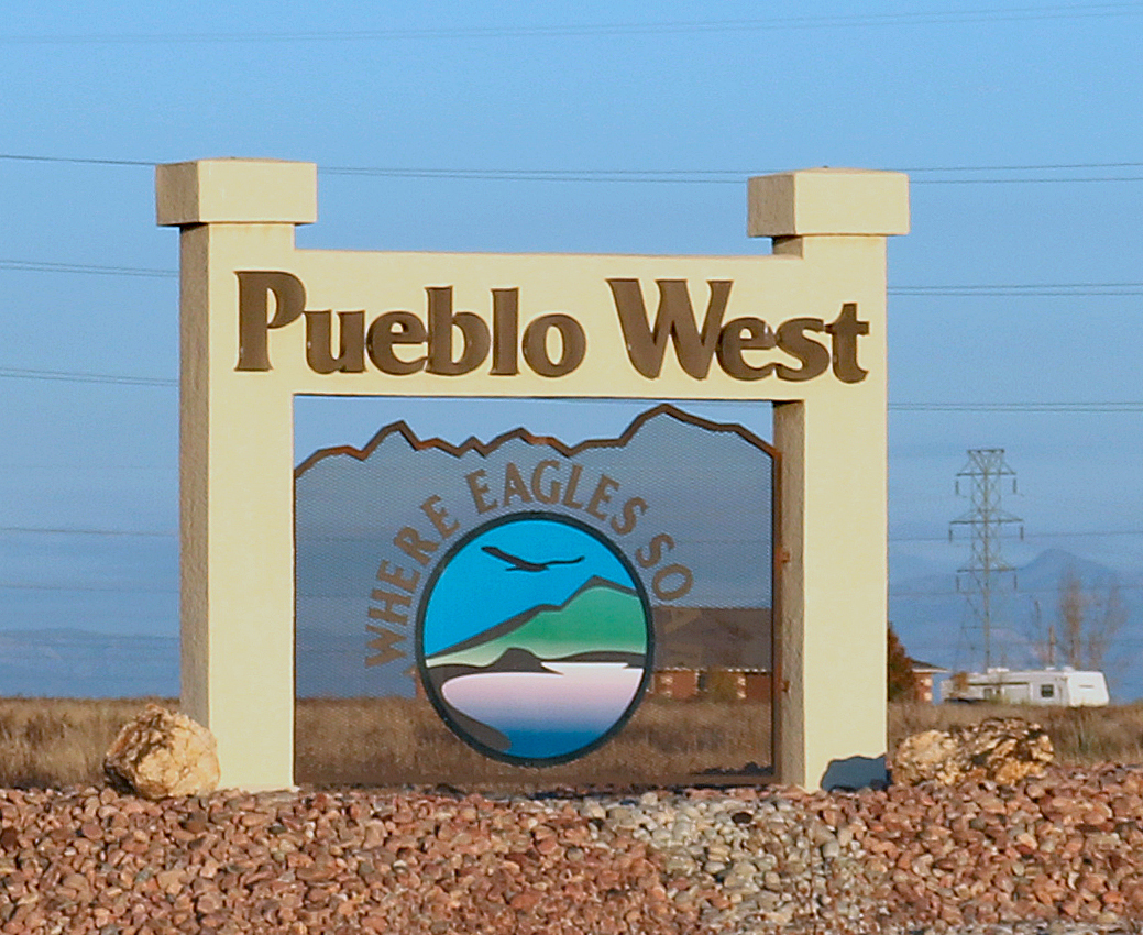 A sign for Pueblo West, Colorado, located along U.S. Highway 50 east of the town.